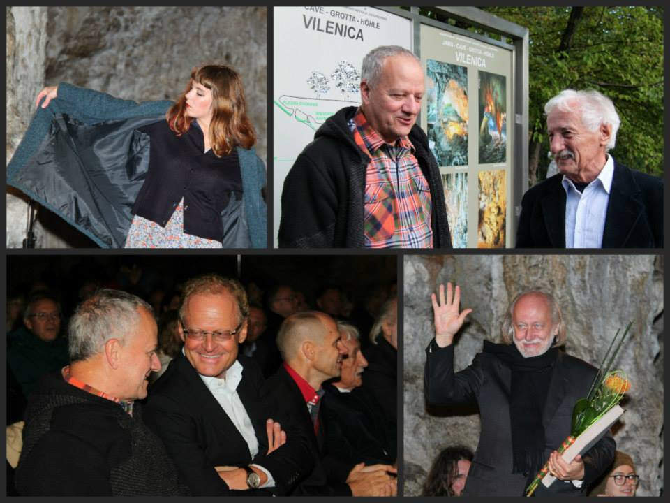 U.S. Ambassador Joseph A. #Mussomeli joined the organizers and guests in the presentation of the #Vilenica 2014 Prize ceremony, held in the Vilenica cave. The U.S. Embassy in Ljubljana supported the 29th Vilenica International Literary Festival, organized by the Slovene Writers' Association and the Vilenica Cultural Society.